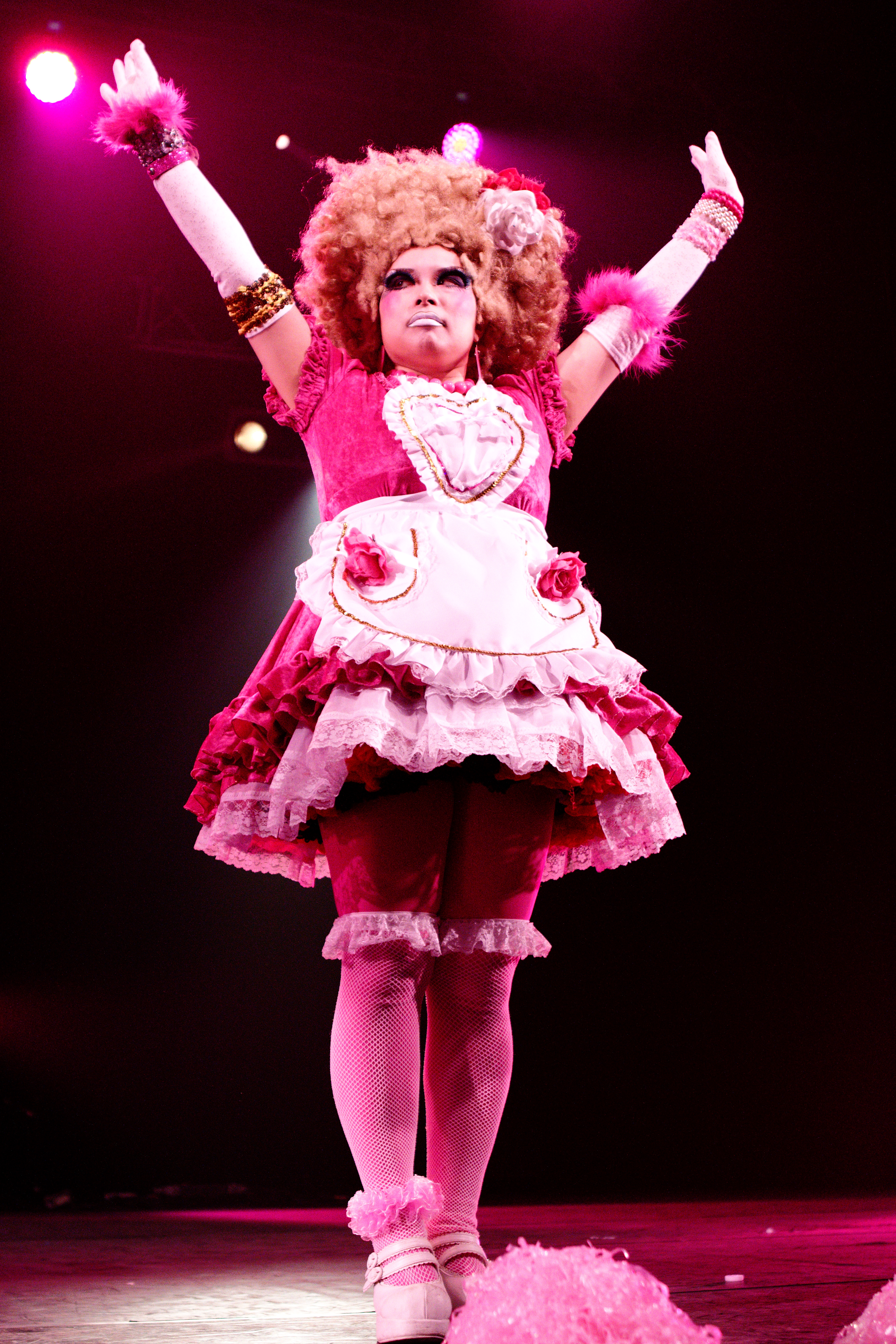 Les Romanesques live at Japan Expo 2011 (Paris, France).